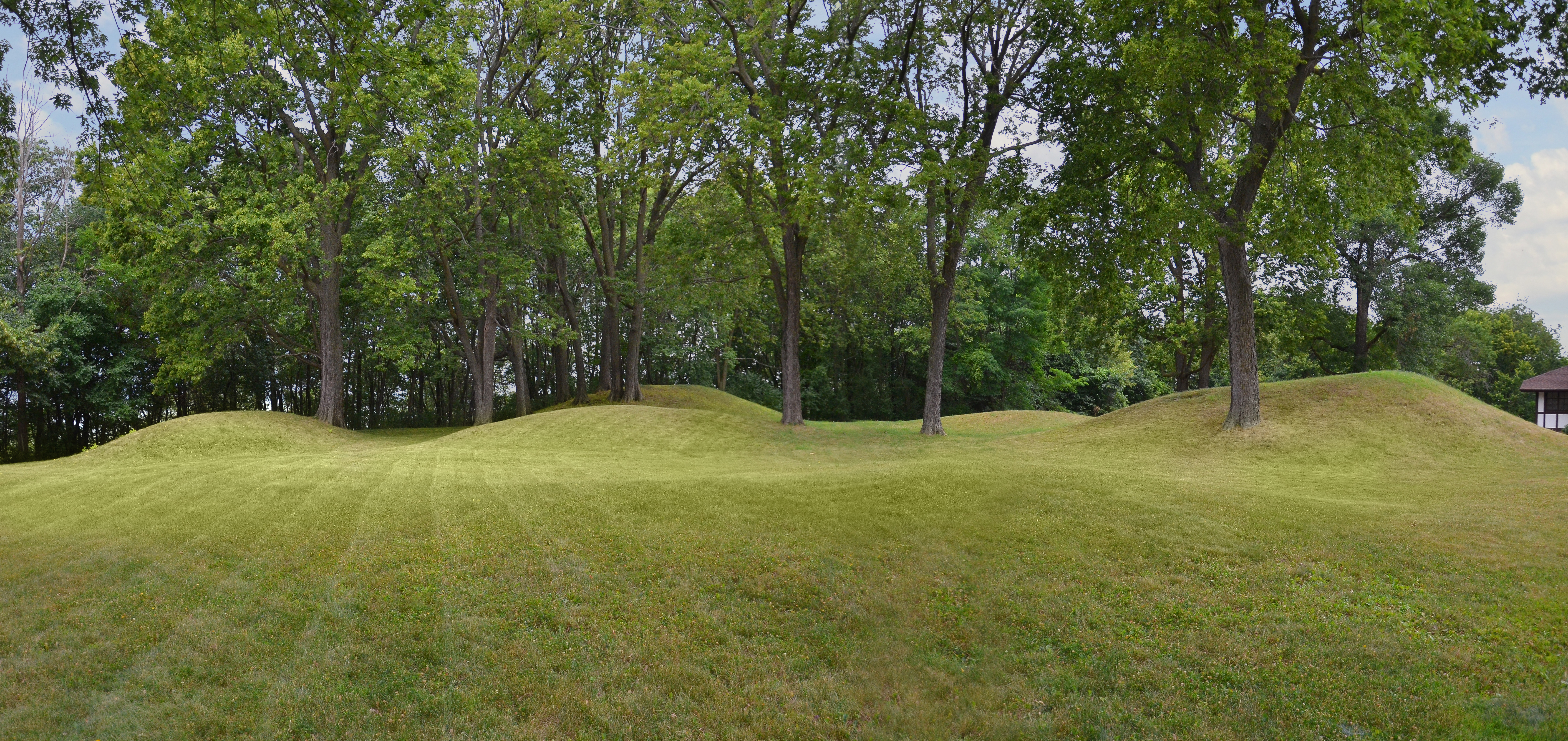 Effigy mounds from the Late Woodland Period (ca. 650 AD to 1200 AD) on the grounds of the Mendota Health Institute in Madison, Wisconsin